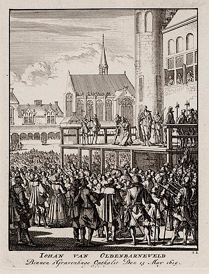 Iohan van Oldenbarneveld, etching by Jan Luyken.